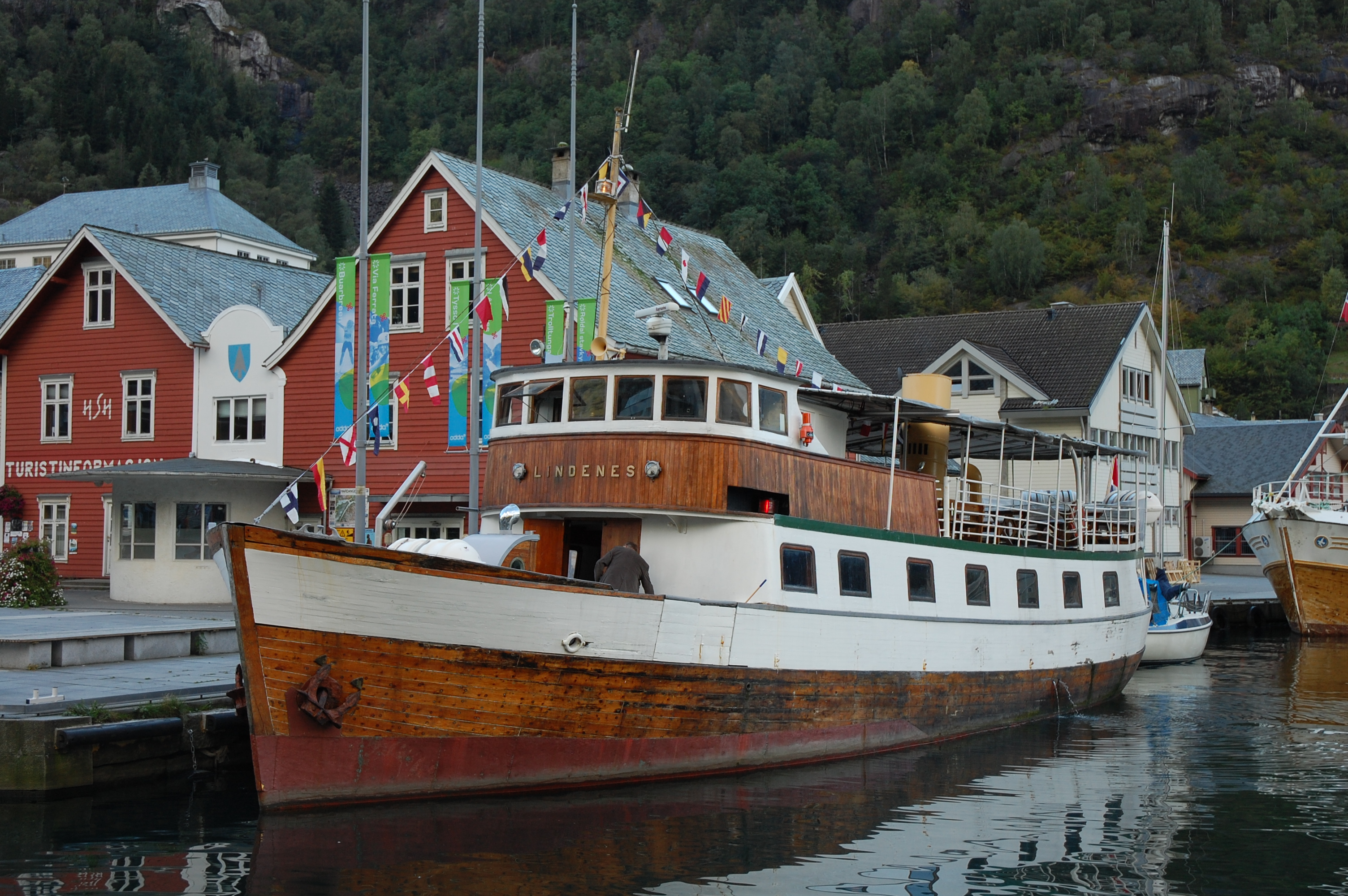 Workers Ferry - Zink Smelter Odda, Norway (1943 - Nordtveit Båtbyggeri)